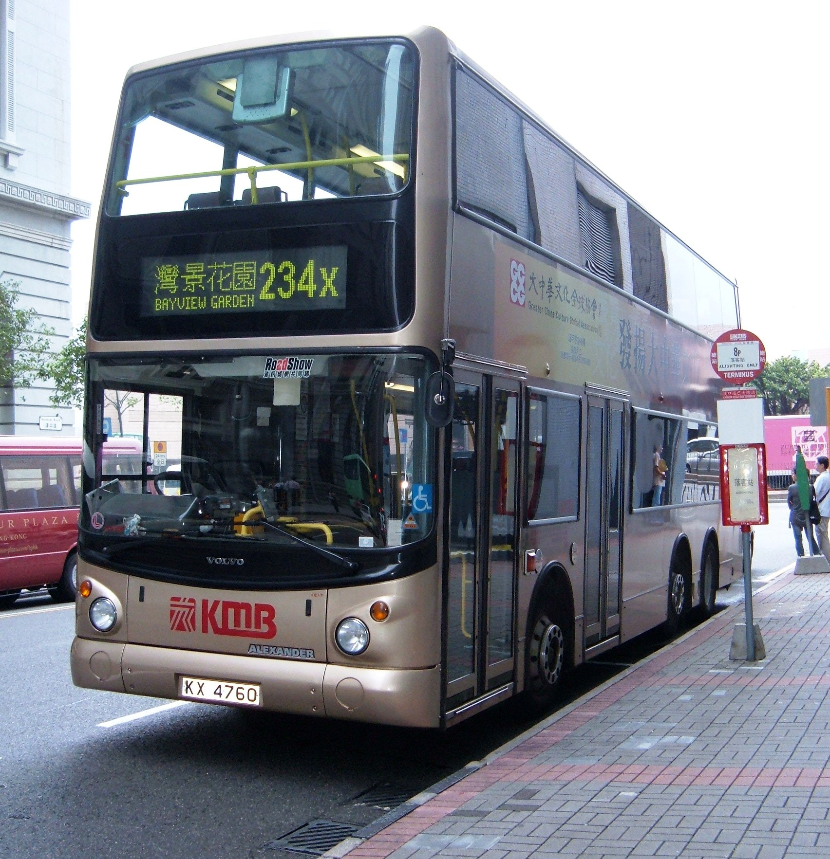 Kowloon Motor Bus 234X at a bus stop at Salisbury and Nathan Roads in Hong Kong.